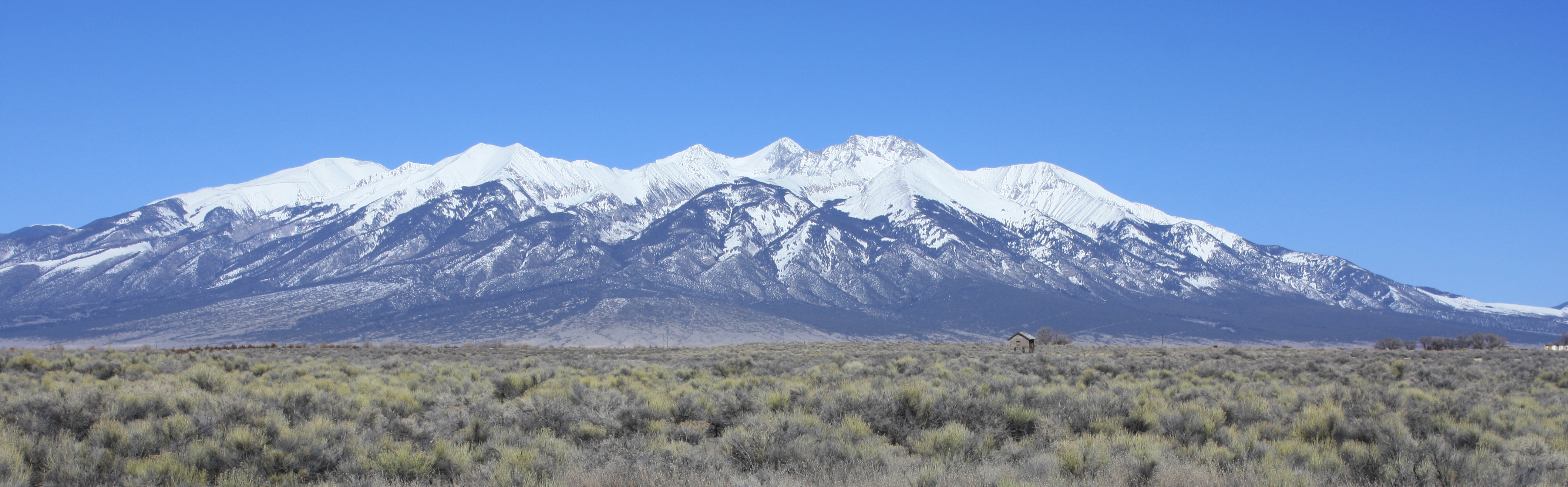 The Blanca Peak group, including California Peak, Twin Peaks, Ellingwood Point, Blanca Peak, Little Bear Peak and Hamilton Peak. Taken from milepost 240 along U.S. 160, seven miles east of Alamosa. Note: original photo at Flickr has annotations naming the individual peaks.